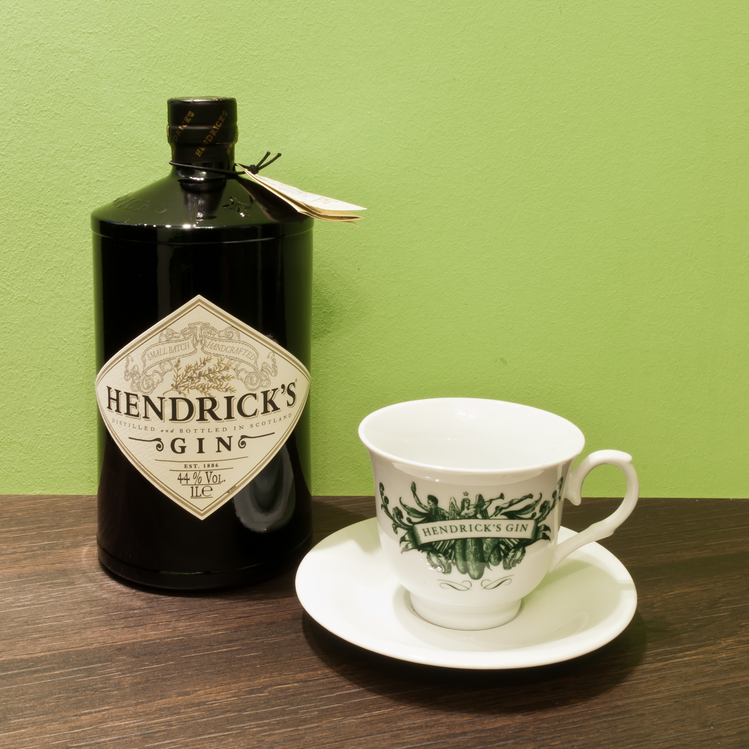 A 1-litre bottle of Hendrick's Gin with a Hendrick's Gin tea cup. Hendrick's propose to have a cocktail during tea time in that cup.